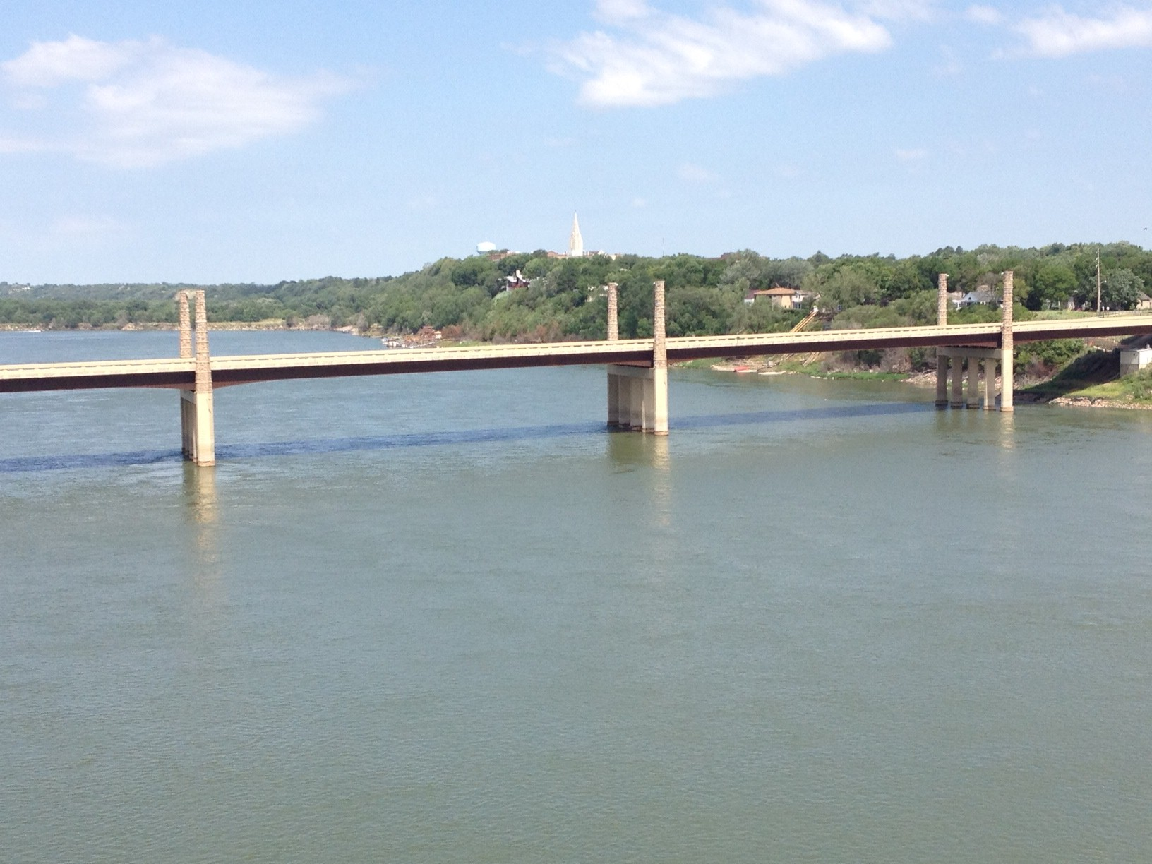 A view of Yankton, South Dakota, from the Meridian Bridge, showing the Missouri River, the Discovery Bridge (foreground), and the Bishop Marty Chapel steeple in the distance